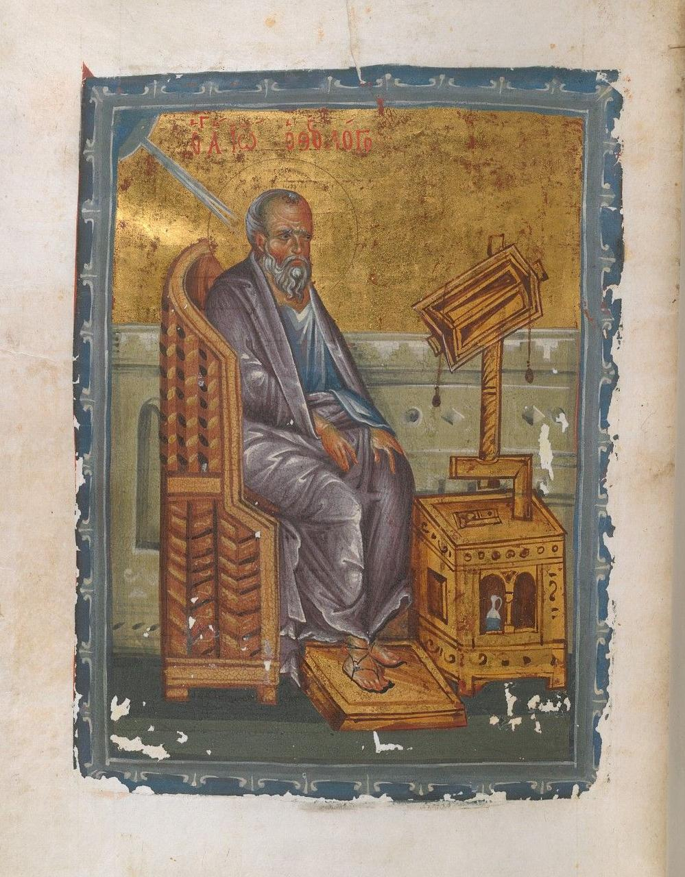 folio 91 of the codex, portrait of John Evangelist